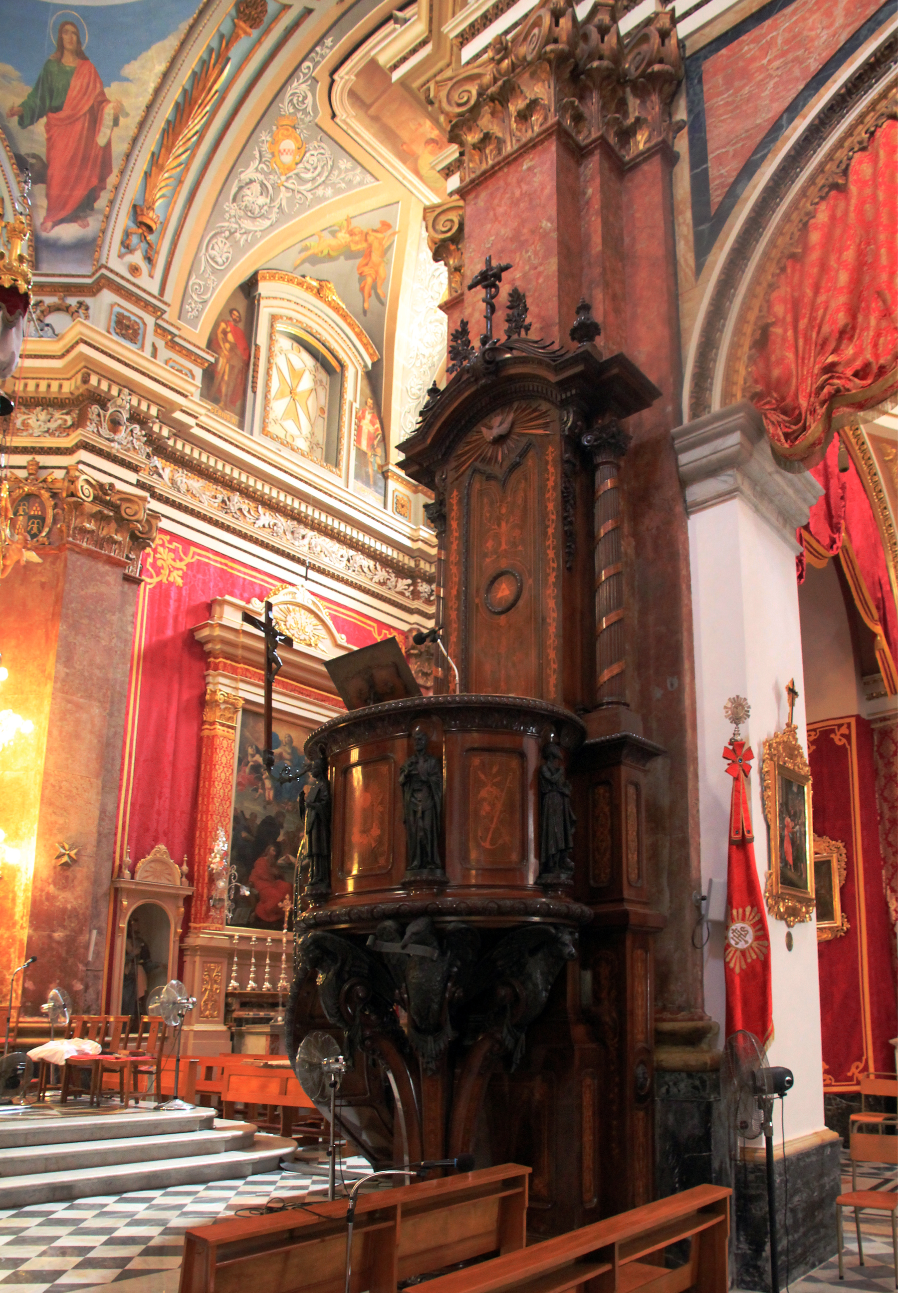 Pulpit of St. Lawrence's Church in the town Birgu, Malta